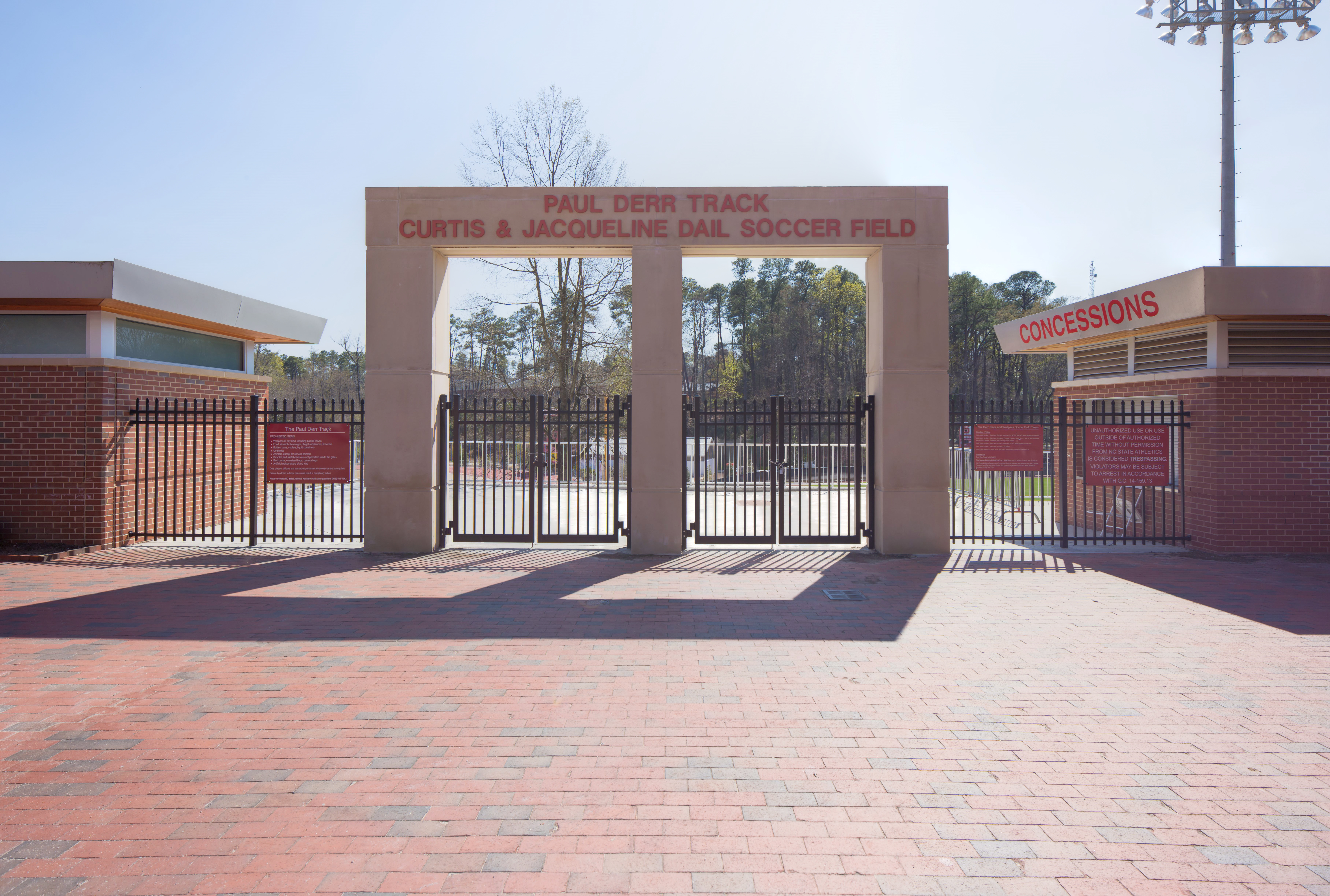 Entrance to Derr Track and Dail Stadium at NCSU. Taken April 6, 2013 Canon 6D / TS-E 24mm f/3.5L II